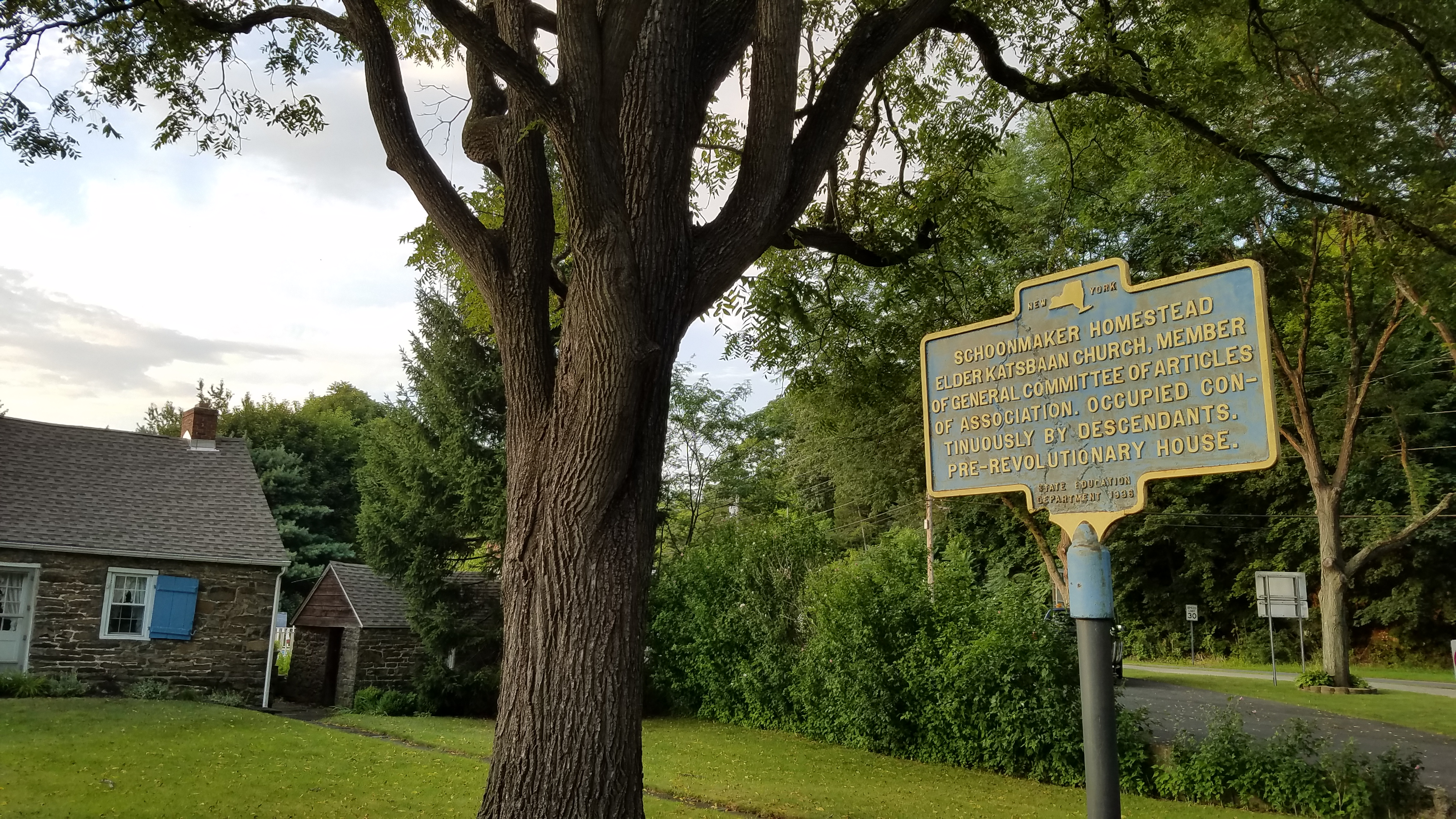 New York State historic marker for the Schoonmaker Home in Saugerties, New York..